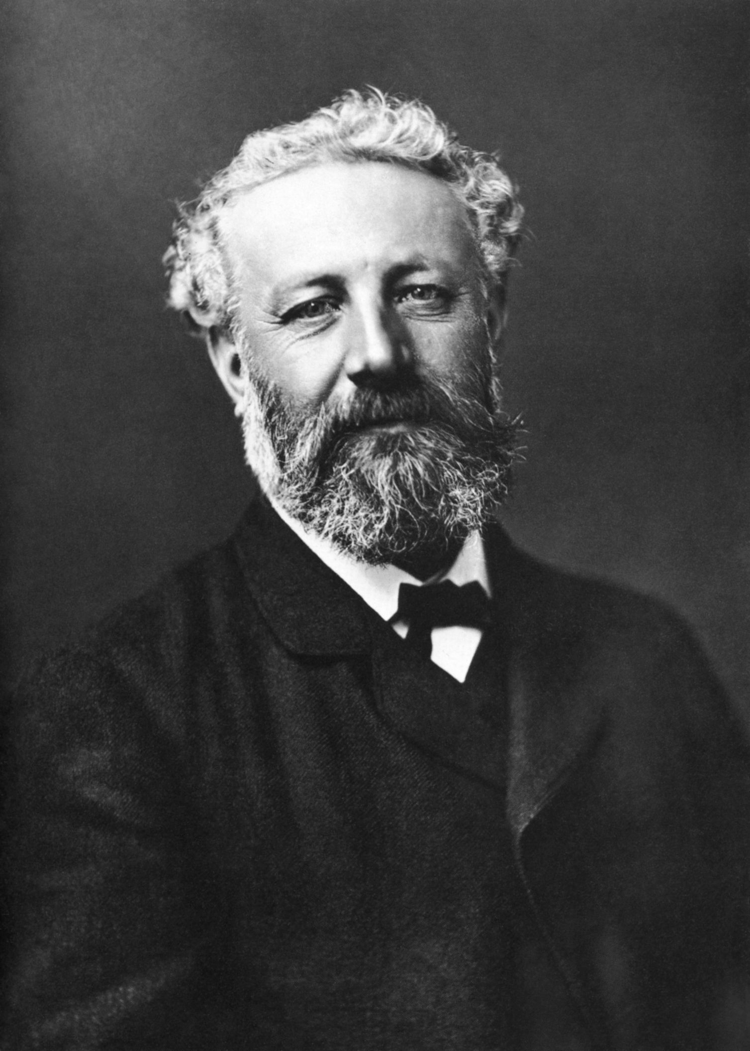 Restored photograph of Jules Verne by Félix Nadar circa 1878.